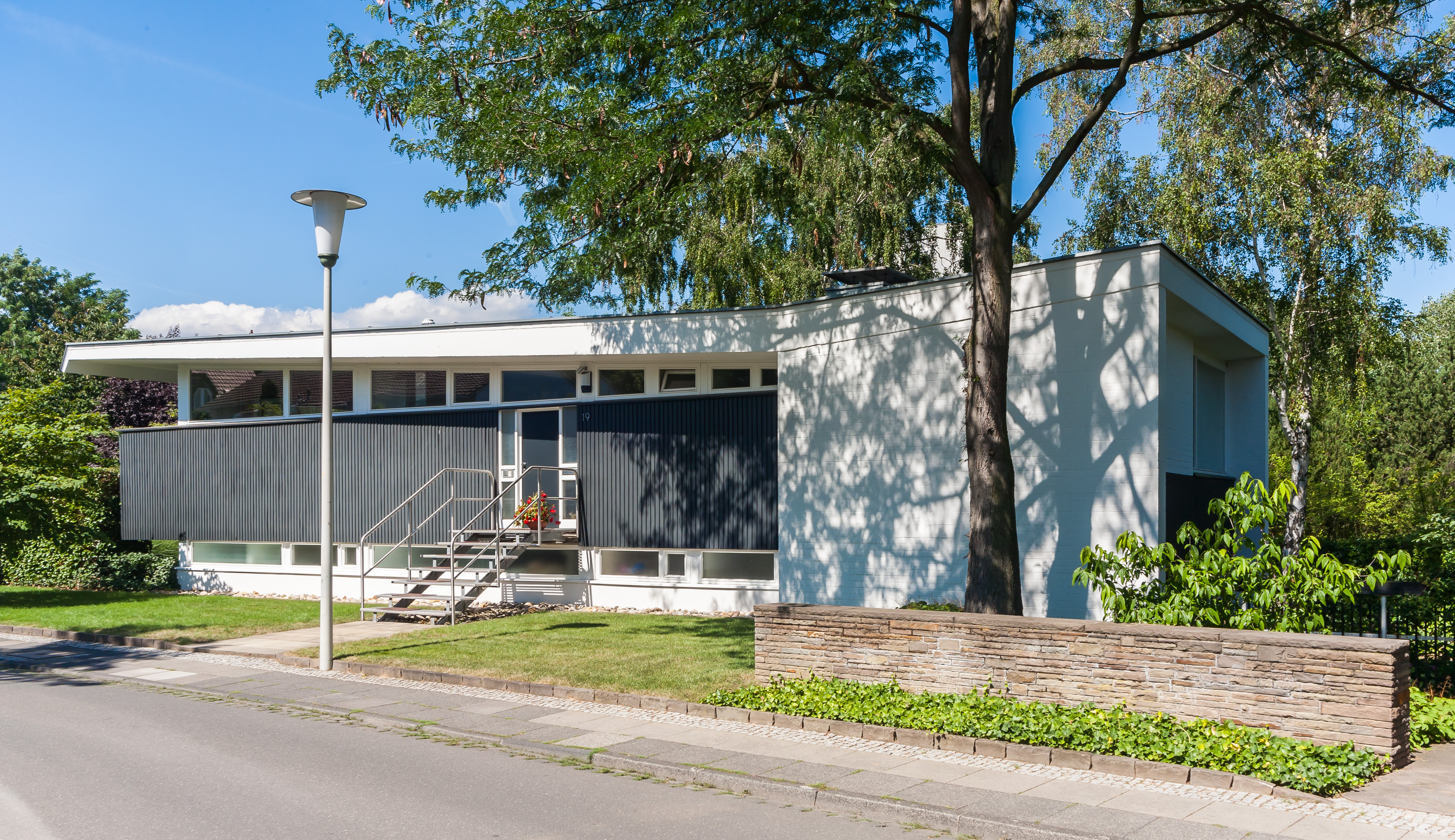 Heritage protected building Langenbachstraße 19, Bonn; former embassy of Costa Rica